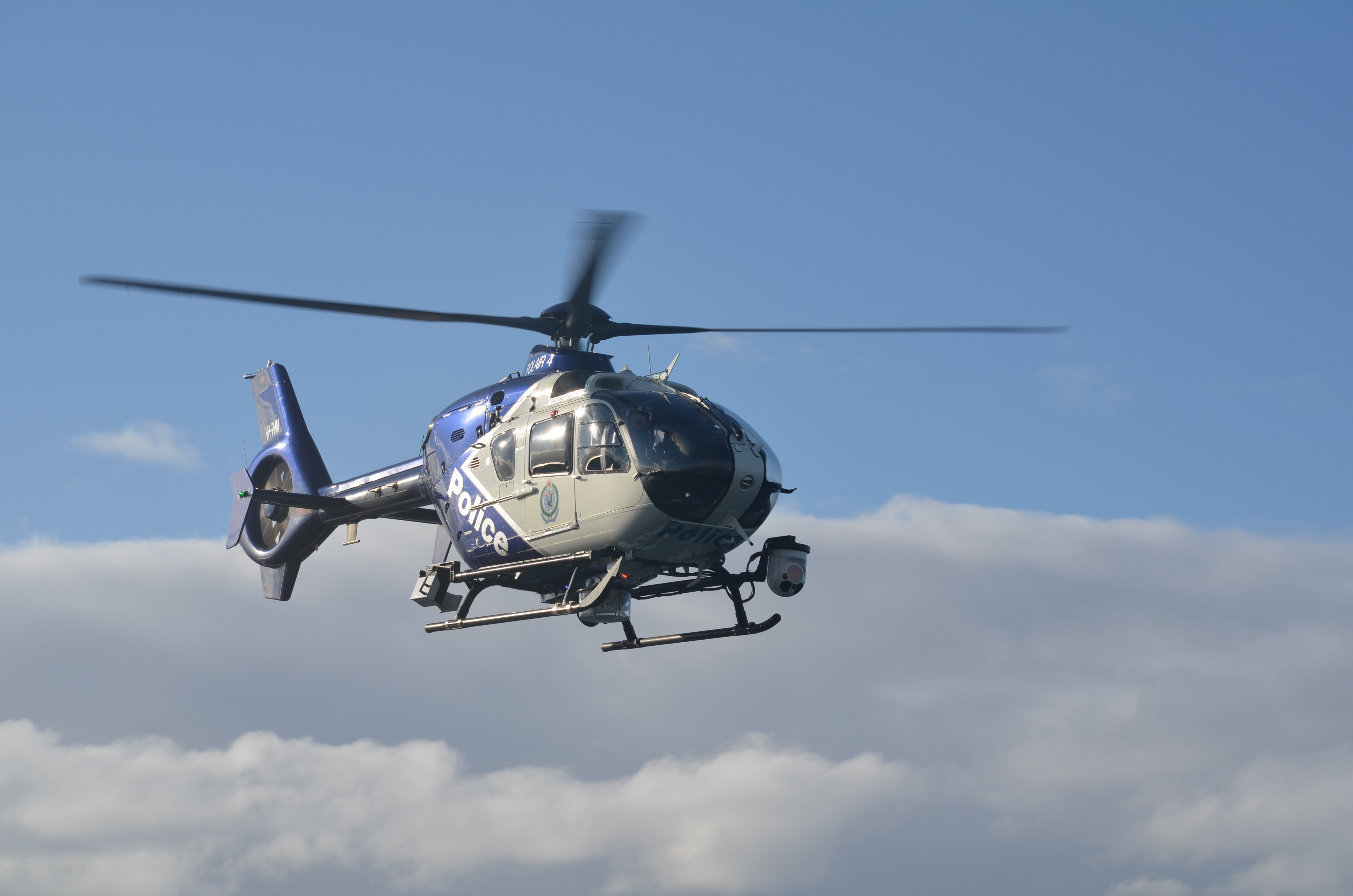 Photographs taken during day 2 of the Royal Australian Navy International Fleet Review 2013. NSW Police helicopter POLAIR 4 flying over North Head.